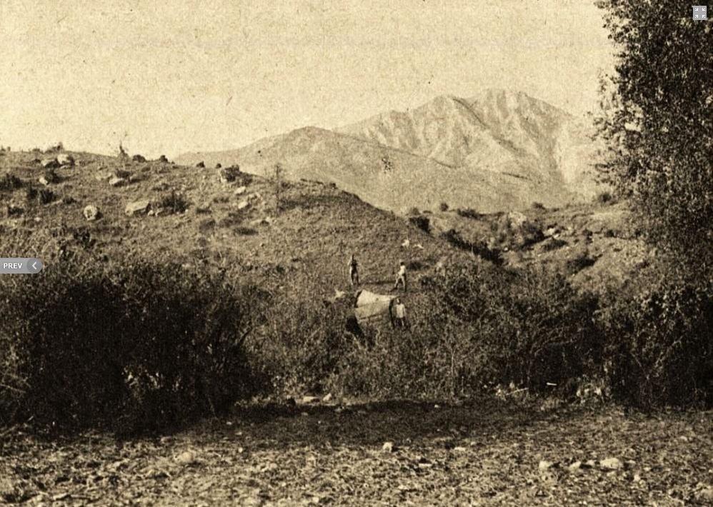 Old picture of Belovodica, Prilep